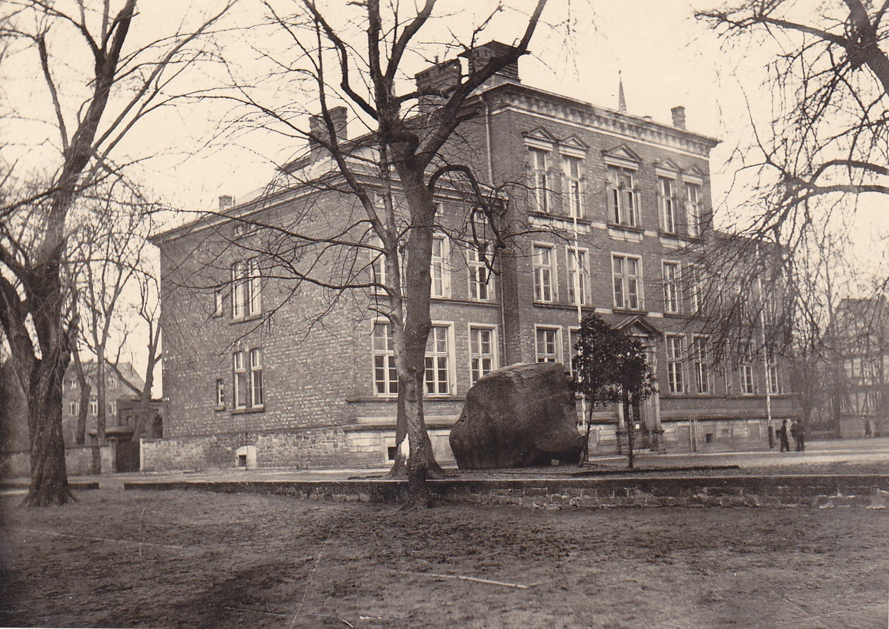 Boys' Higher Education School building at Rinteln in the 1940s